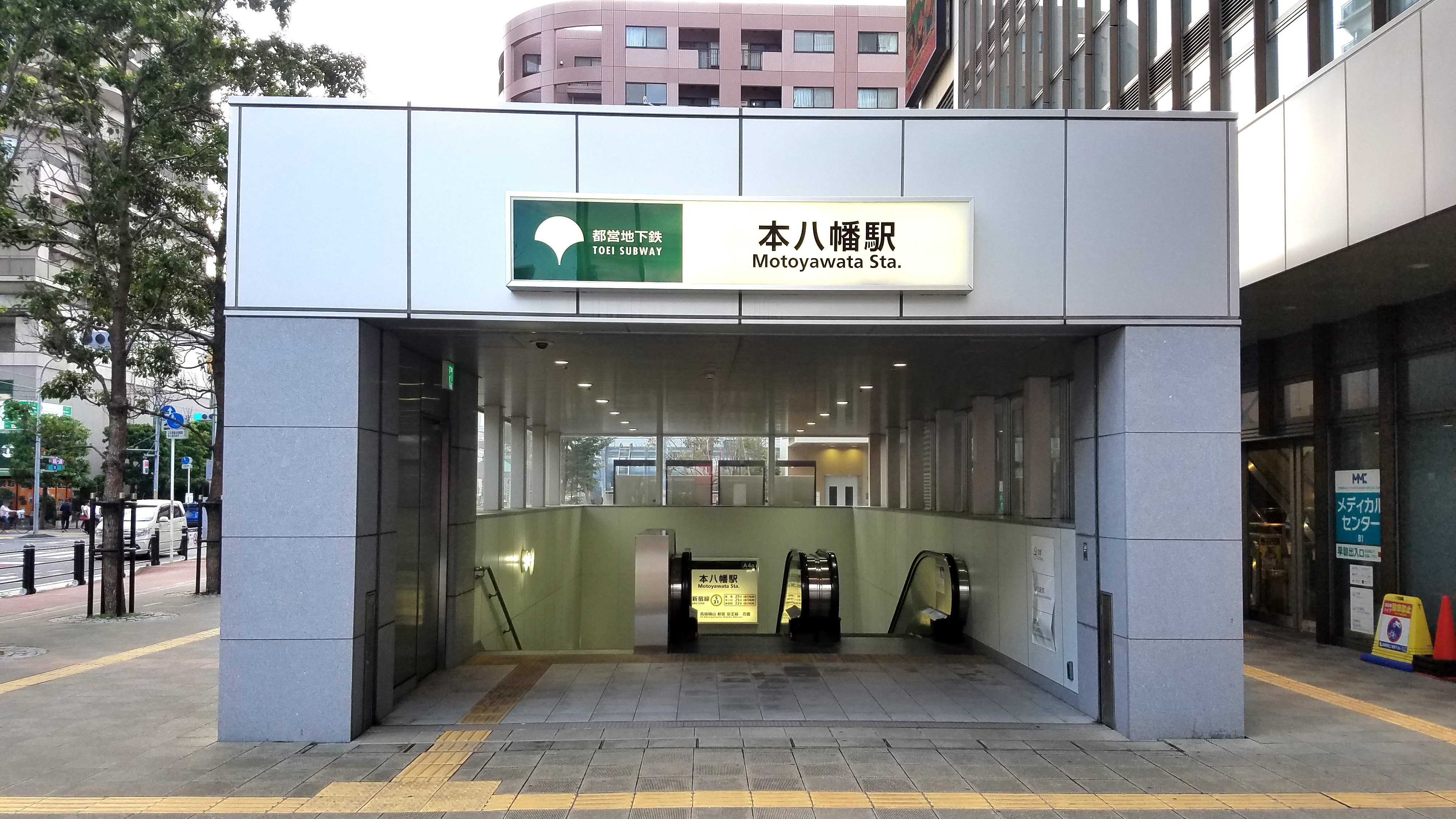 The A4a entrance to Motoyawata Station on the Toei Shinjuku Line in Ichikawa city, Chiba prefecture, Japan